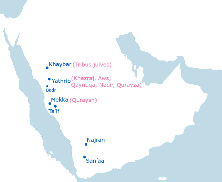 Map of Moslem and Jewish tribes of Yathrib